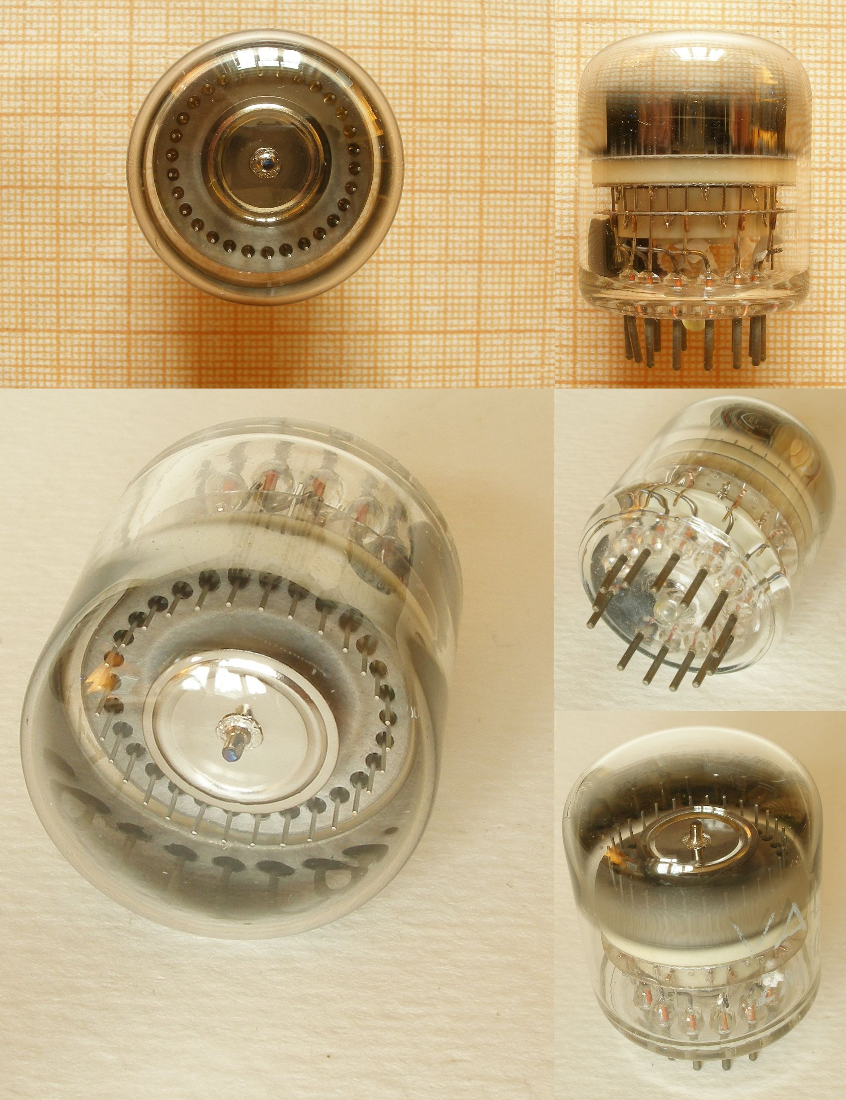 Dekatron ZM 1070